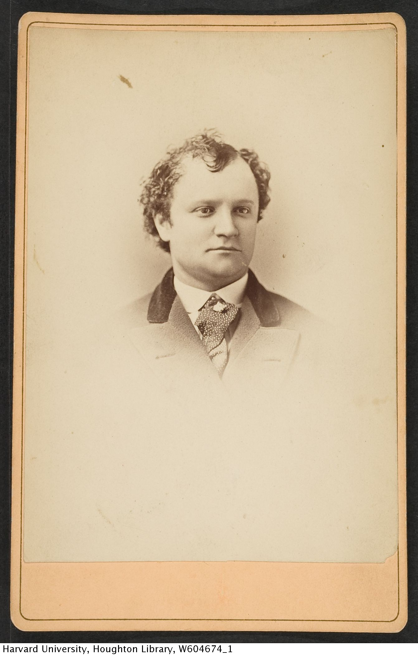 Cabinet card image of American actor Louis Aldrich (1843-1901). Dated as 1871 by source. TCS 1.232, Harvard Theatre Collection, Harvard University